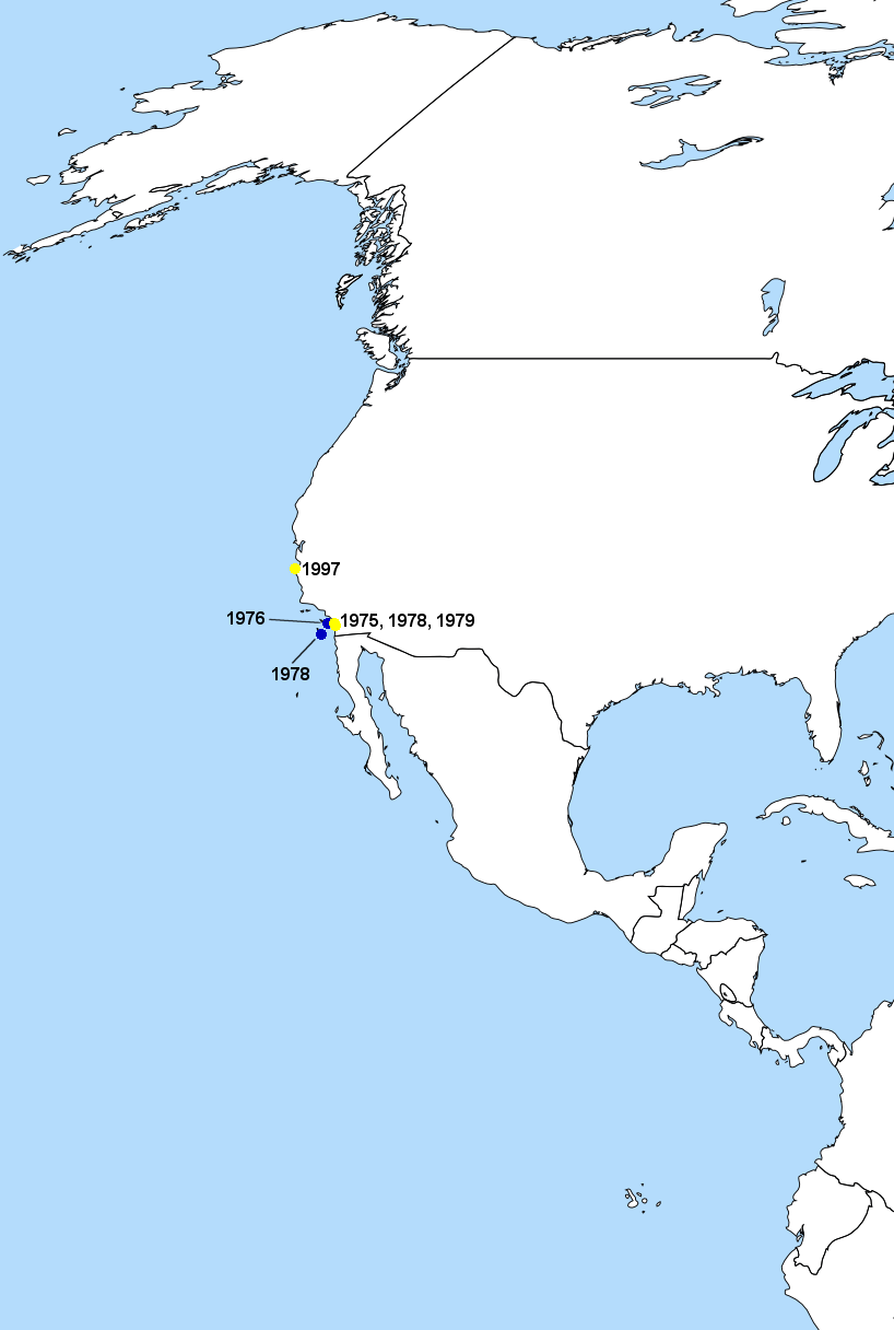 Known sightings of Mesoplodon perrini, 1975-1997 Yellow = Strandings Dark blue = possible at-sea sightings